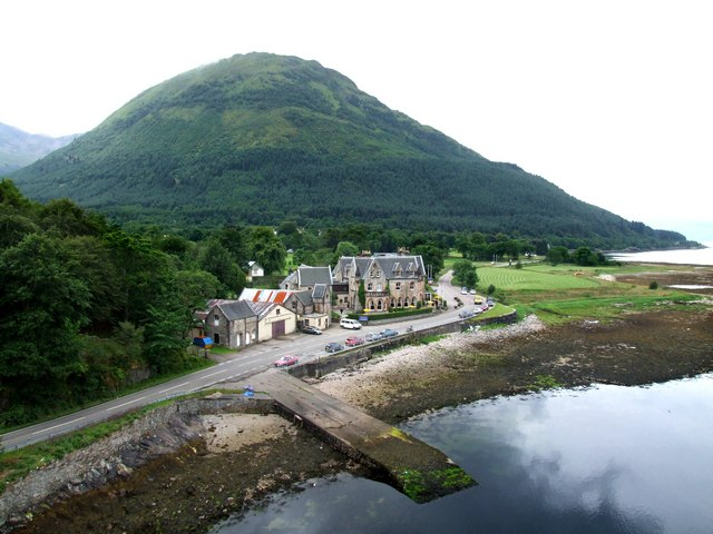 The south shore, Ballachulish The south shore of Loch Leven. I took a similar shot to this, on 35mm film, on 02 September 1994. I wasn't happy with it and swore to go back one day and try again.